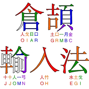 「倉頡輸入法」繁體字拆碼 Coding of "倉頡輸入法" (i.e. Cangjie method) in traditional Chinese characters